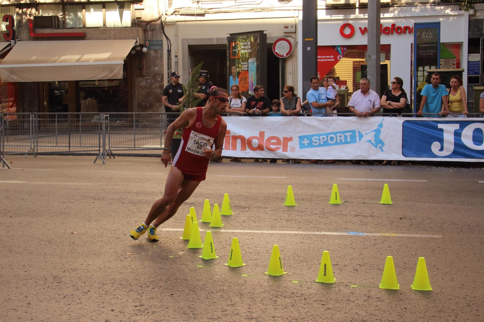 60-ErsinTacir (TUR) in the 11th European Cup Race Walking Murcia ESP 17 May 2015